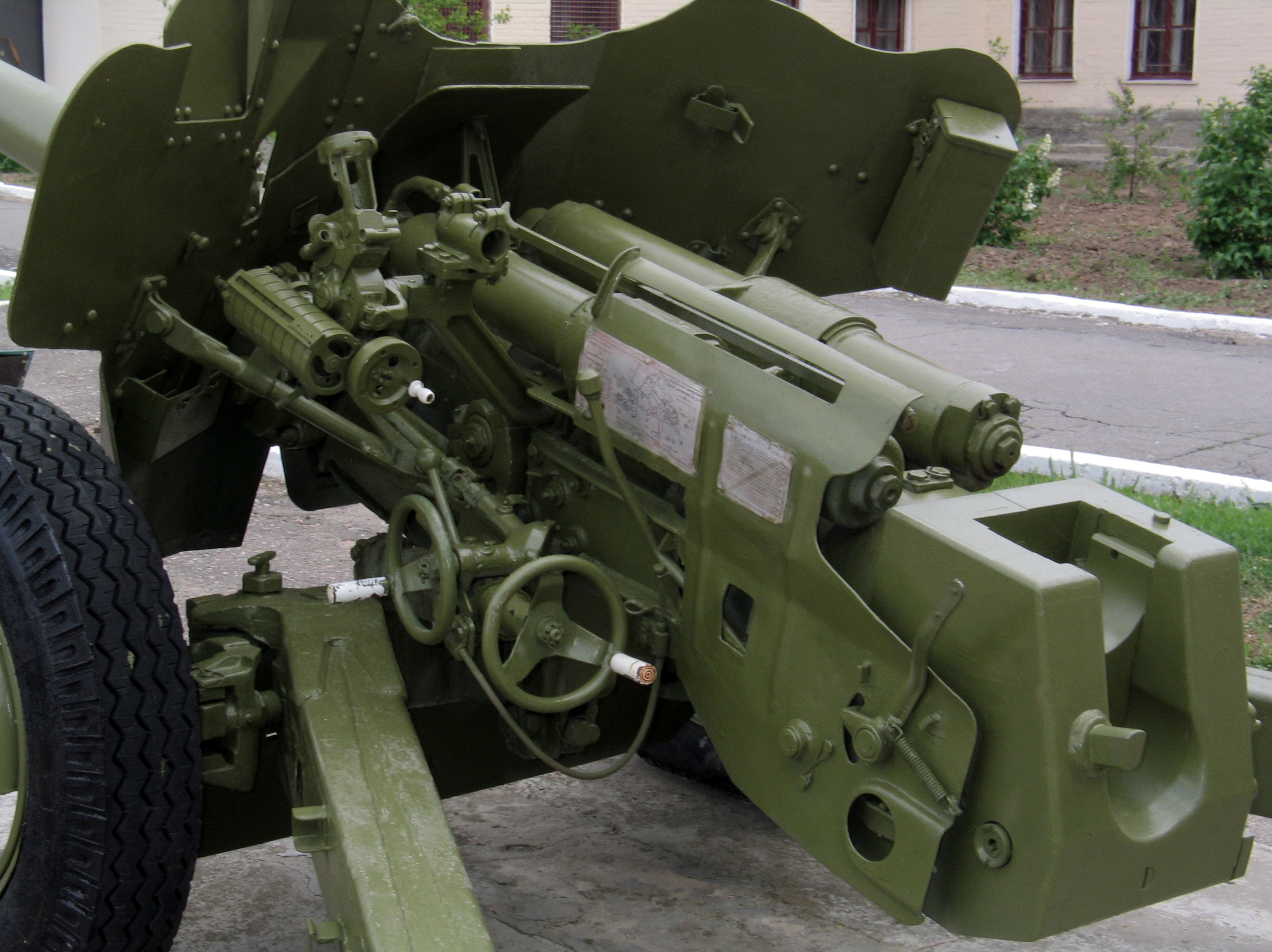 85-mm antitank gun D-48 (1953). Kapustin Yar museum in Znamensk, Russia.